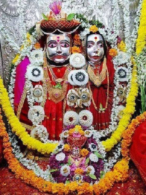 श्रीनाथ म्हस्कोबा , वीर.